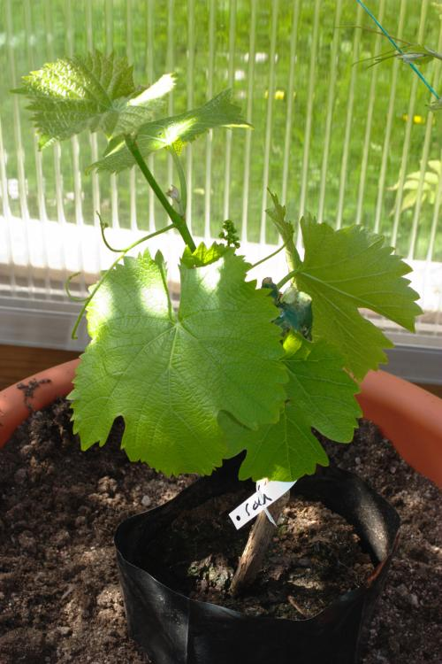 Newly crafted Solaris Vine (Vitis vinifera). Rootstock 125AA.